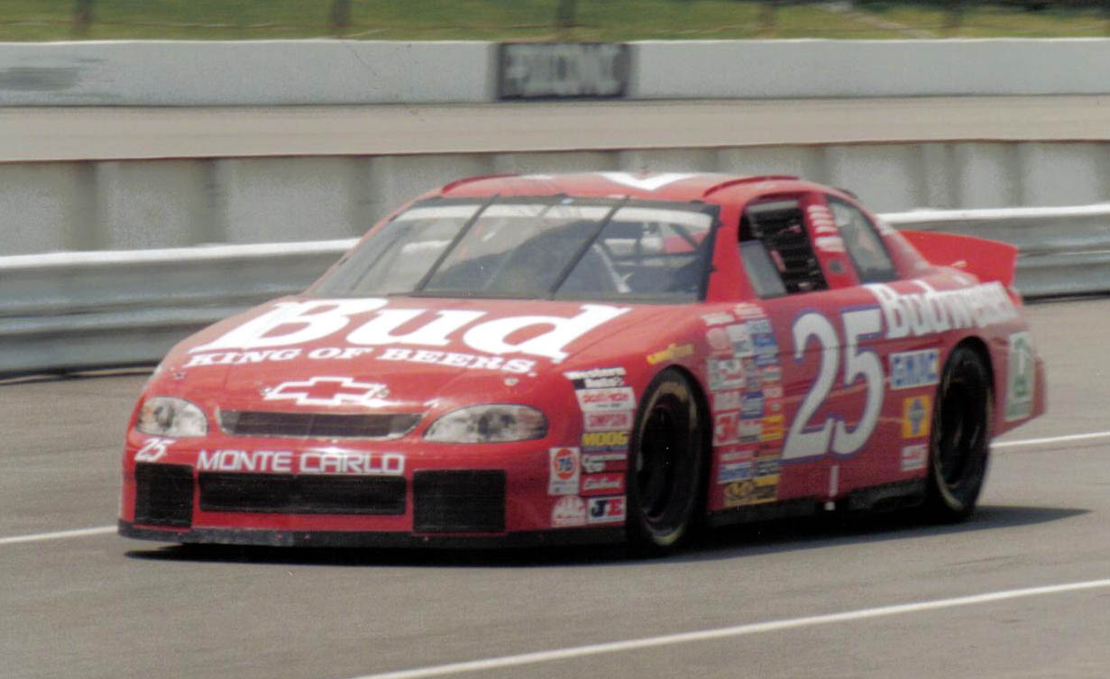 NASCAR driver Ricky Craven at Pocono in 1997. He got a couple of wins with the Cal Wells car but had little success with the Hendrick 25.